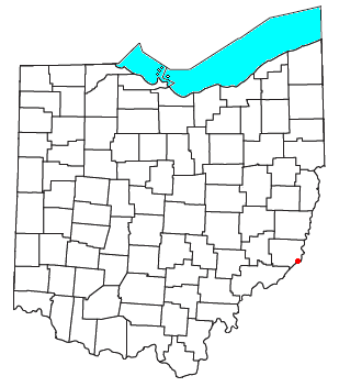 Locator map of the unincorporated community of Sardis in Monroe County, Ohio, United States.